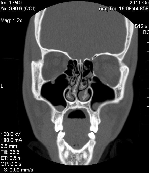 A CT scan of the head showing the inner workings of a nose with a deviated septum.